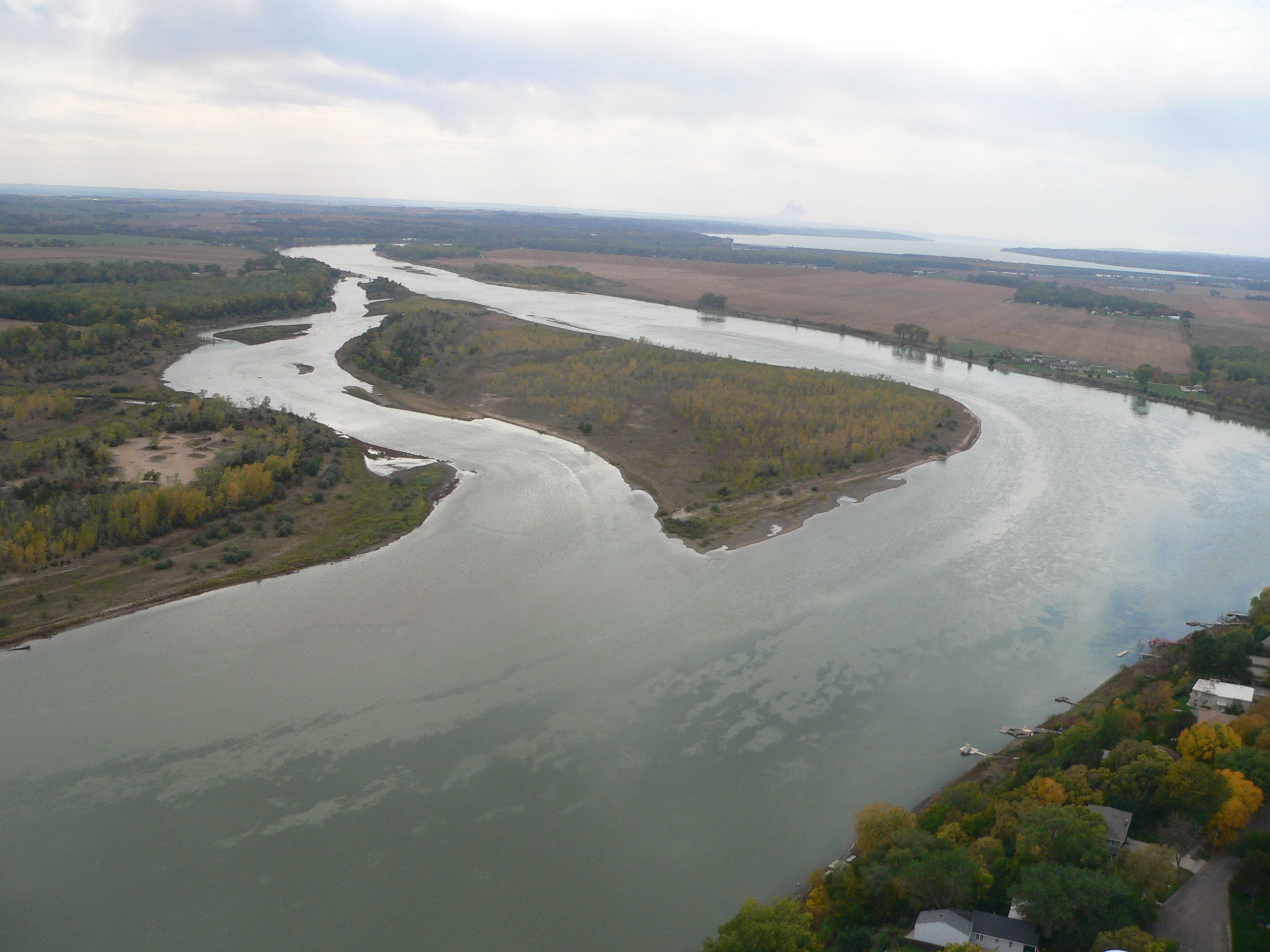 The Missouri River near Yankton, South Dakota. Lewis and Clark Lake can be seen in the distance.